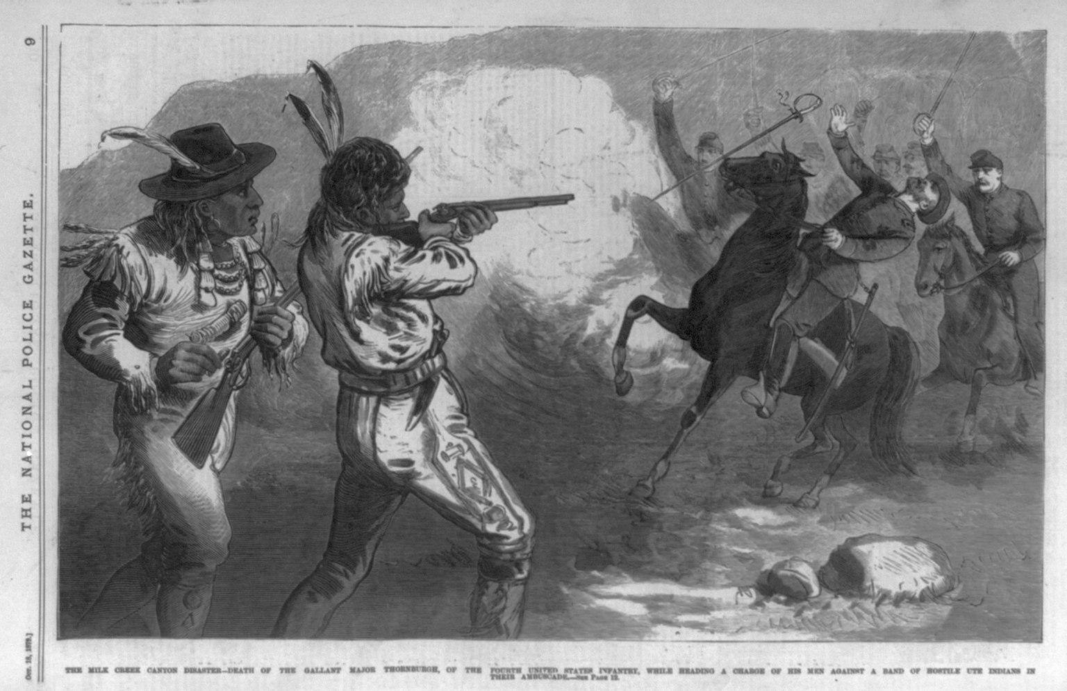 Title: The Milk Creek Canyon disaster - death of the gallant Major Thornburgh, of the Fourth United States Infantry, while heading a charge of his men against a band of hostile Ute Indians in their ambuscade Abstract/medium: 1 print : wood engraving.